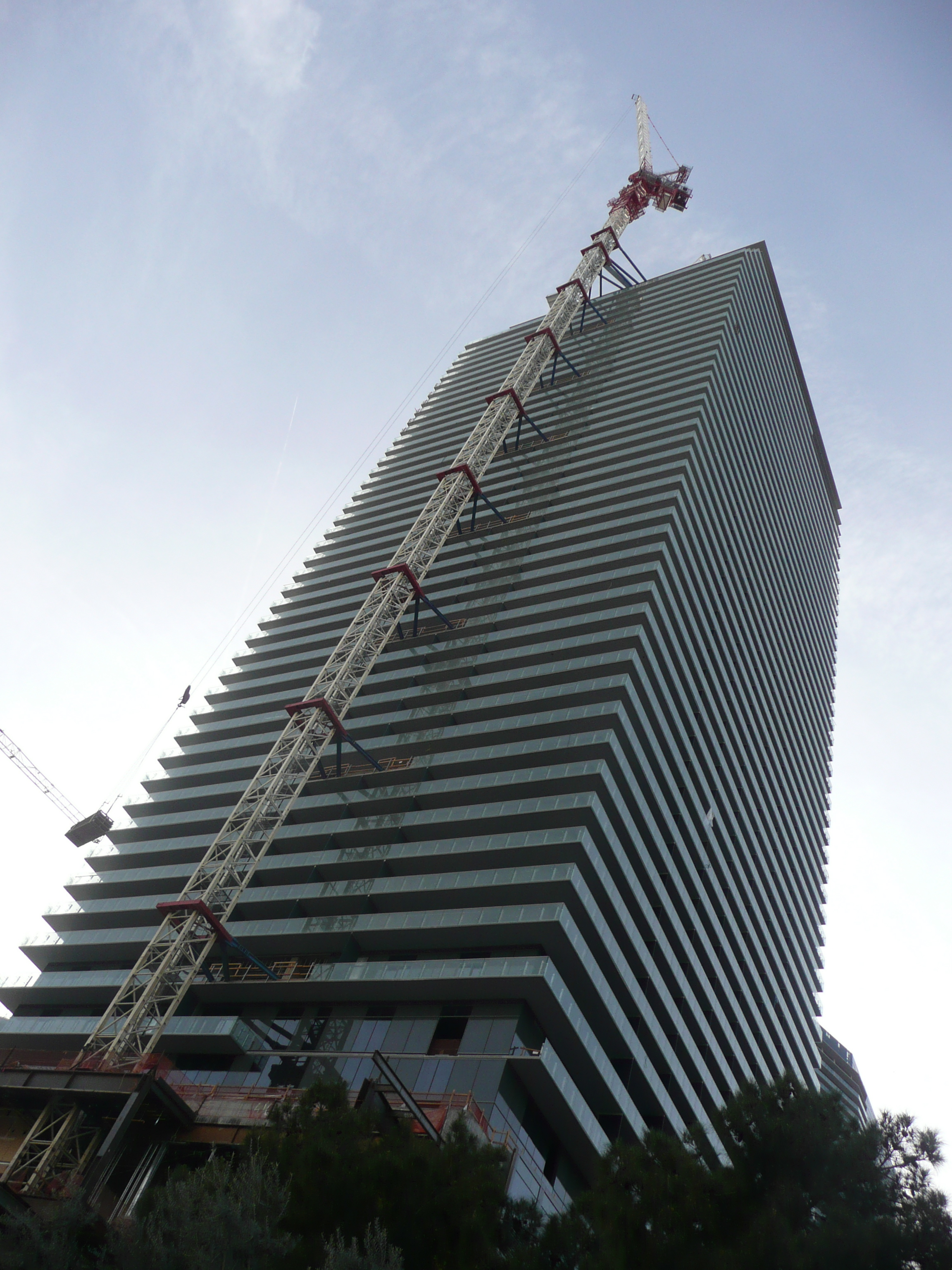 The front tower at the Cosmopolitan Resort & Casino